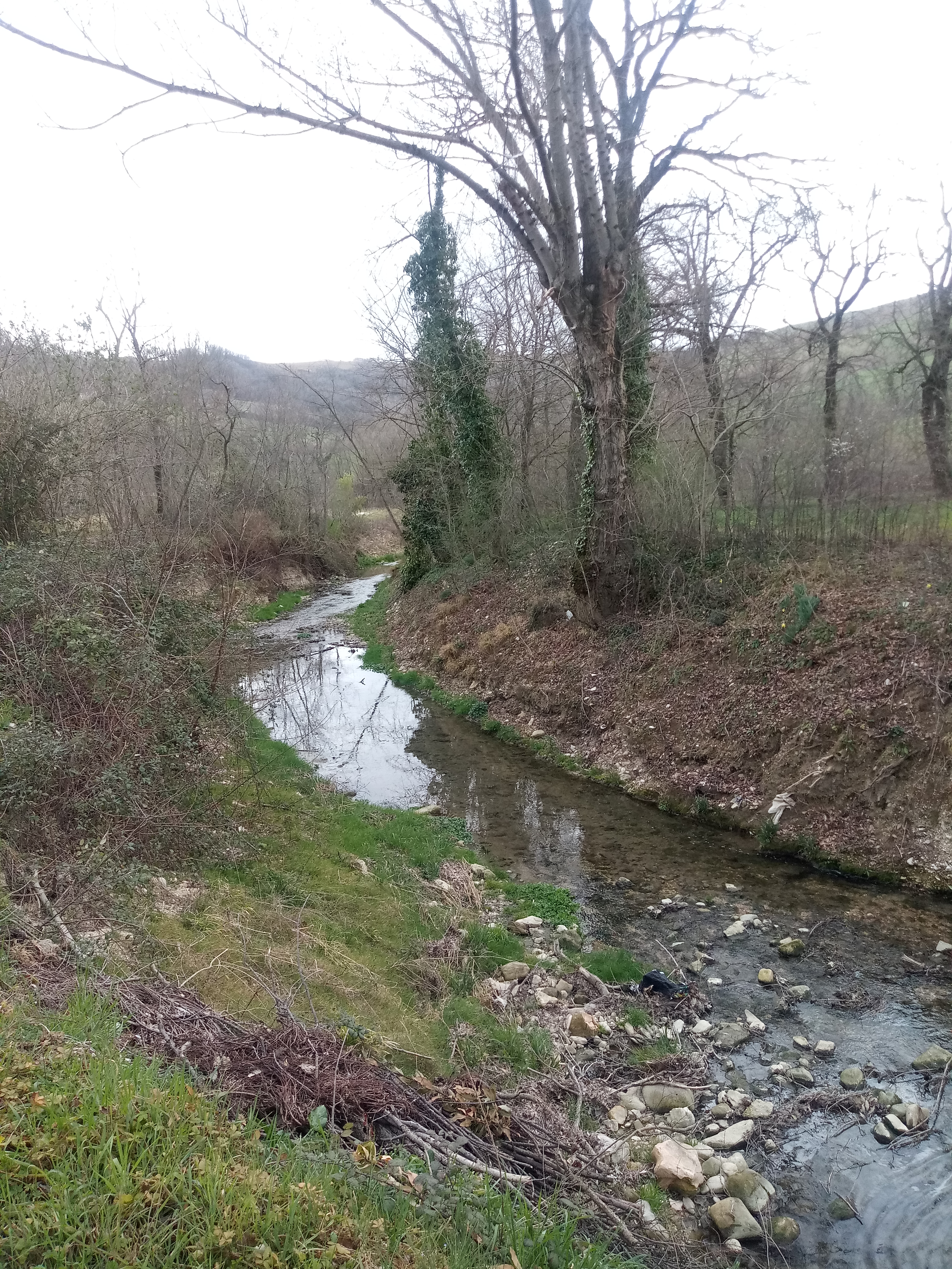 River course fiastra to Campanelle (San Ginesio)